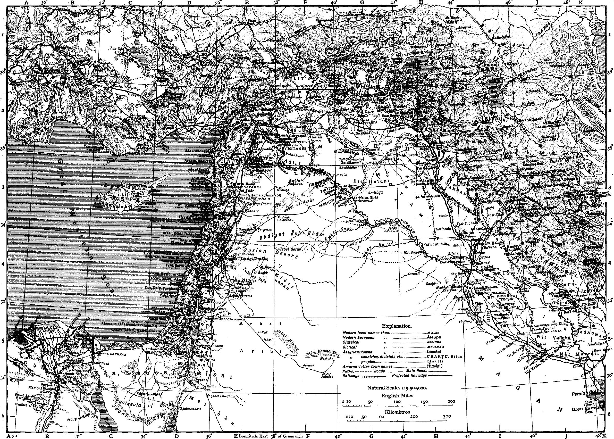 An illustration from the Encyclopaedia Biblica, a 1903 publication which is now in the public domain. Map 3 for article "Syria". Syria (and Mesopotamia, Babylonia, and Assyria) in detail. For an index to the names, see below. It would be helpful if someone could add colour to the map (specifically, the oceans, rivers, and lakes), to clarify it/ improve the aesthetic.